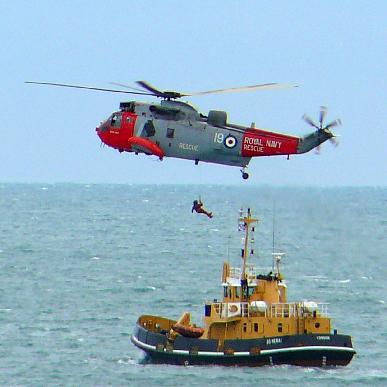 Air-sea rescue off Falmouth, England